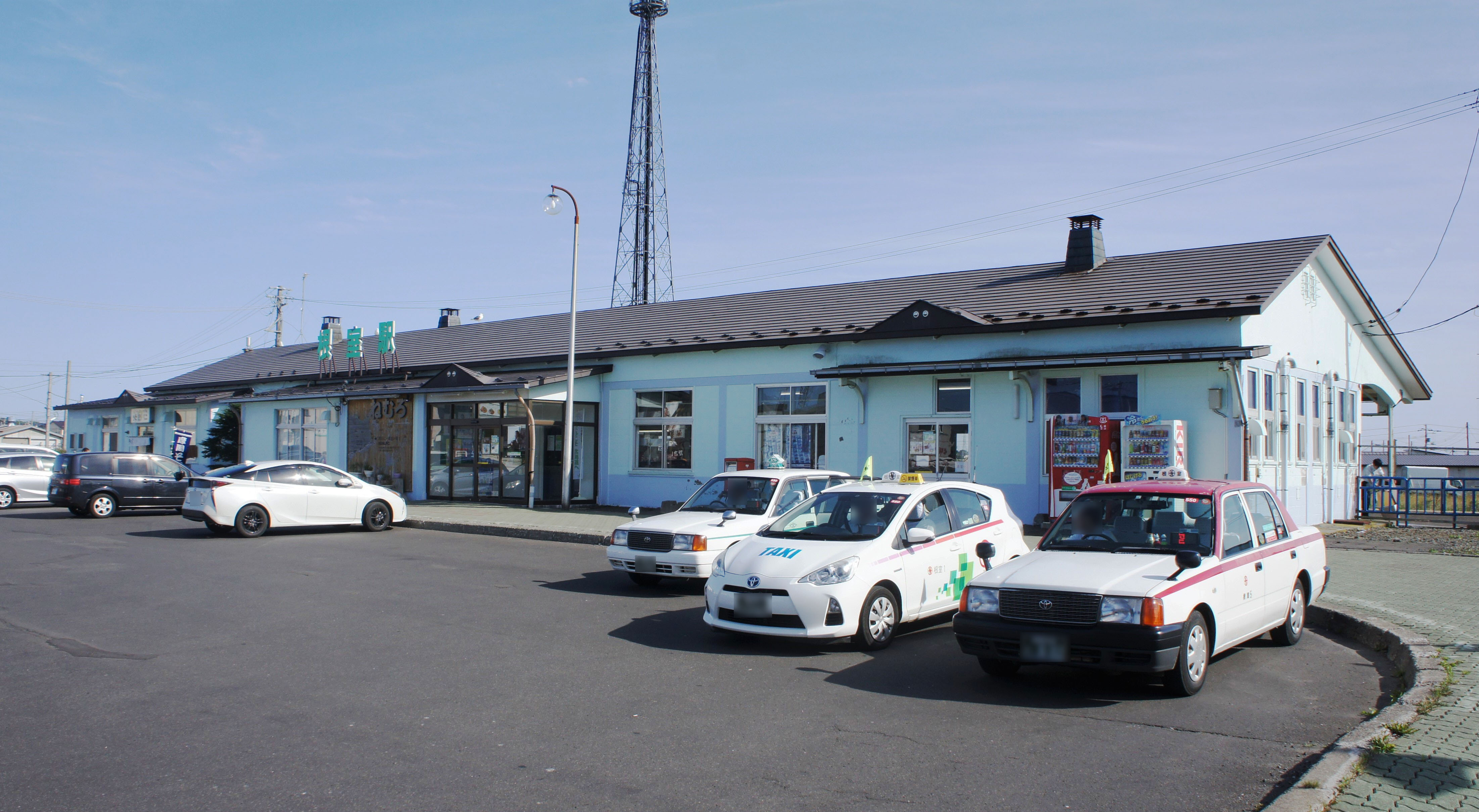 Station building of JR Nemuro-Main-Line Nemuro Station